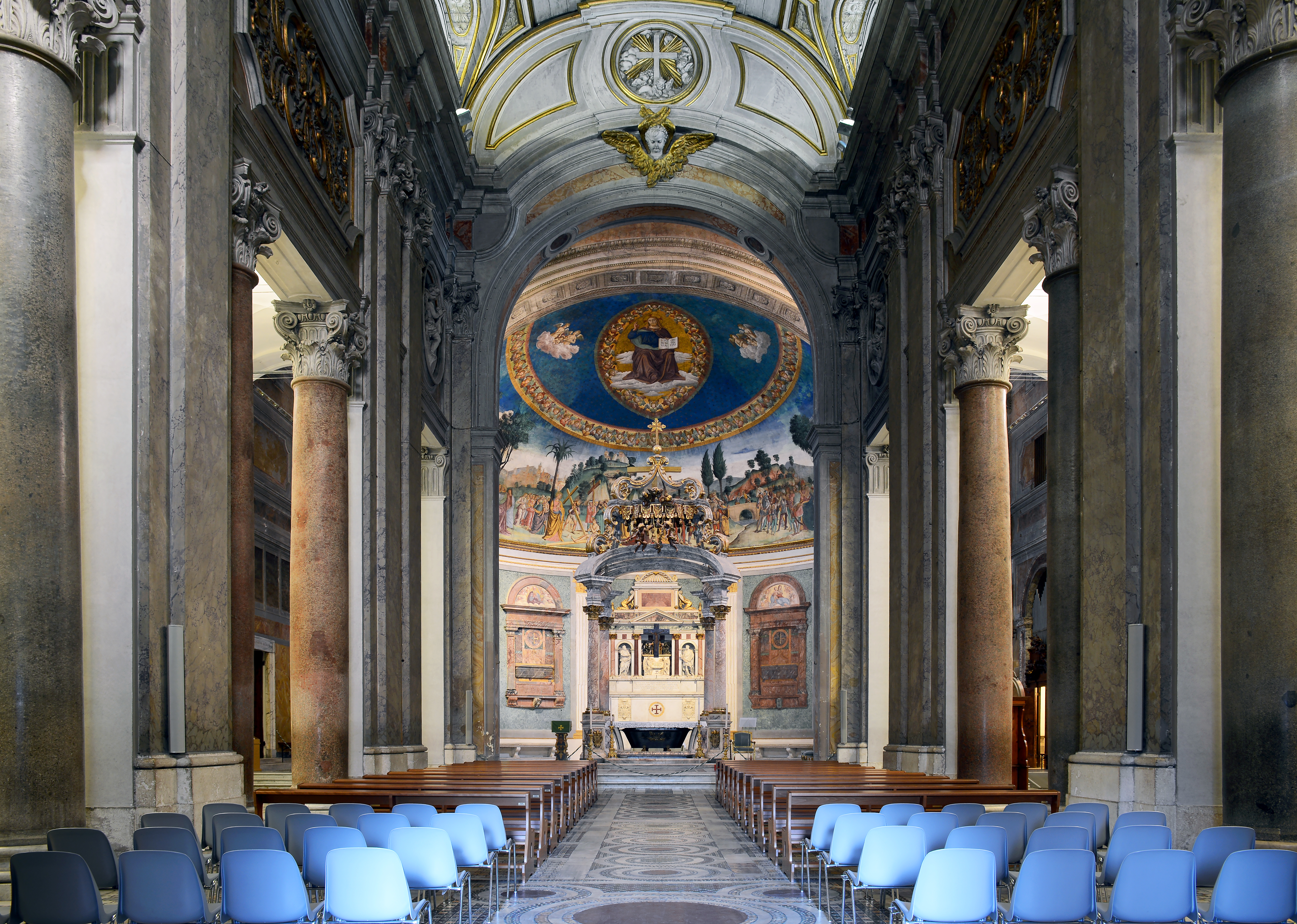 Santa Croce in Gerusalemme (Rome) - interior